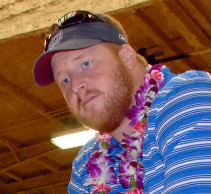 New England Patriots center Dan Koppen talks with the children in the youth center's before and after school program during his NFL Pro Bowl player appearance Feb. 7 at the youth center at Hickam Air Force Base, Hawaii.